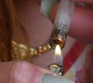 A woman smoking crack from a glass pipe.